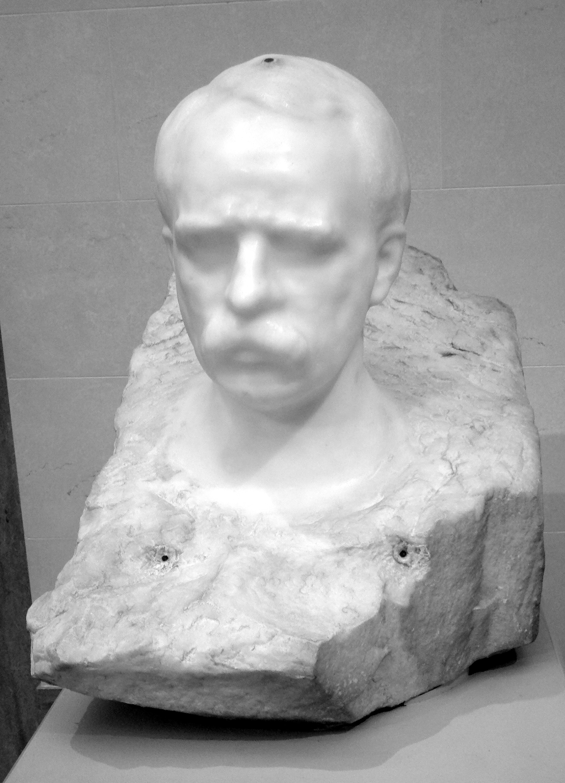 A bust of Edward H. Harriman by Auguste Rodin at the Palace of the Legion of Honor in San Francisco.From placard at museum:Auguste Rodin. French, 1840-1917. Bust of Edward H. Harriman, ca. 1909. Marble. Signed front of base, right: Rodin. Gift of W. A. and E. Roland Harriman.